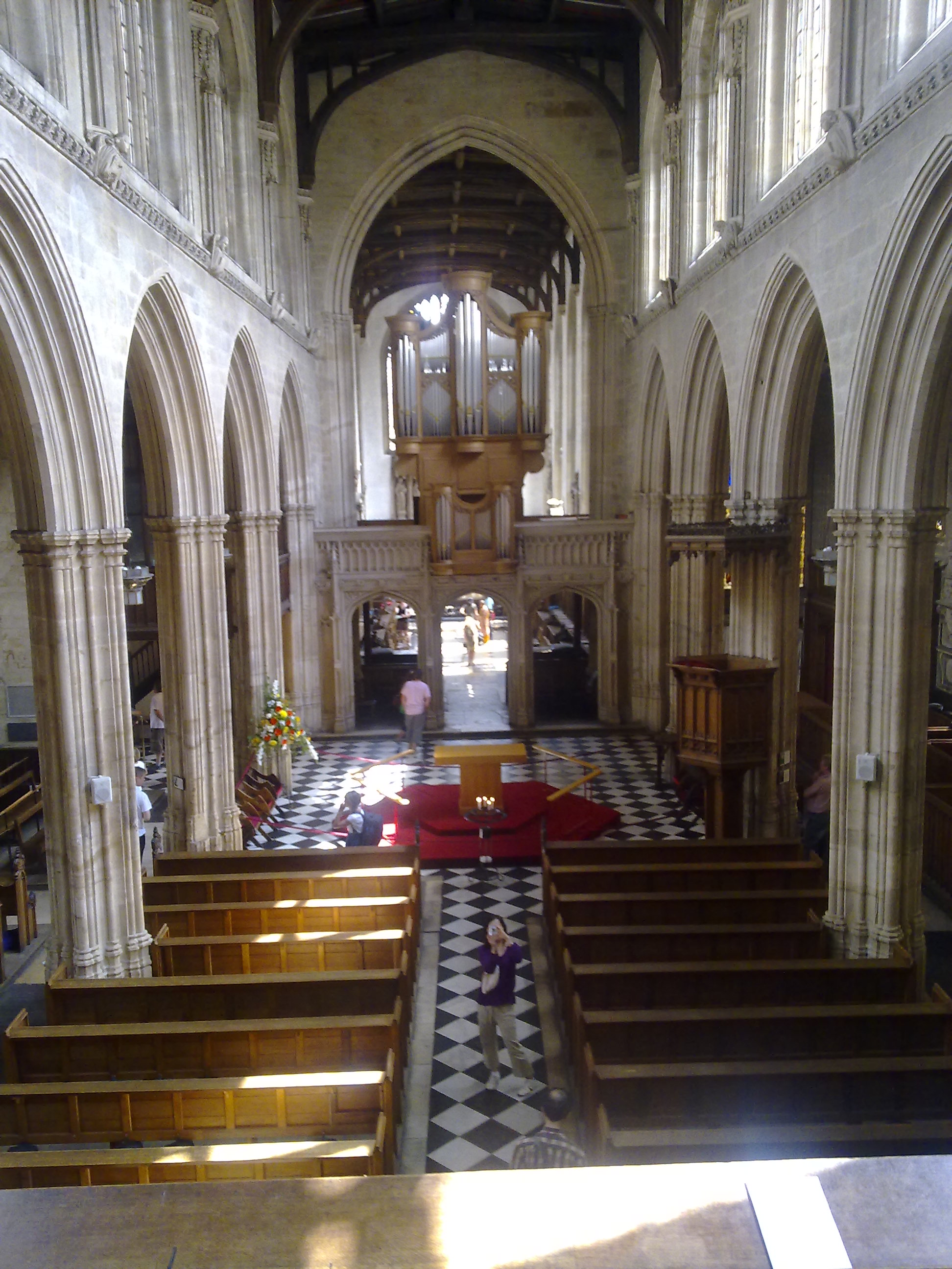 The nave of St Mary's, looking east, towards the altar and the chancel.